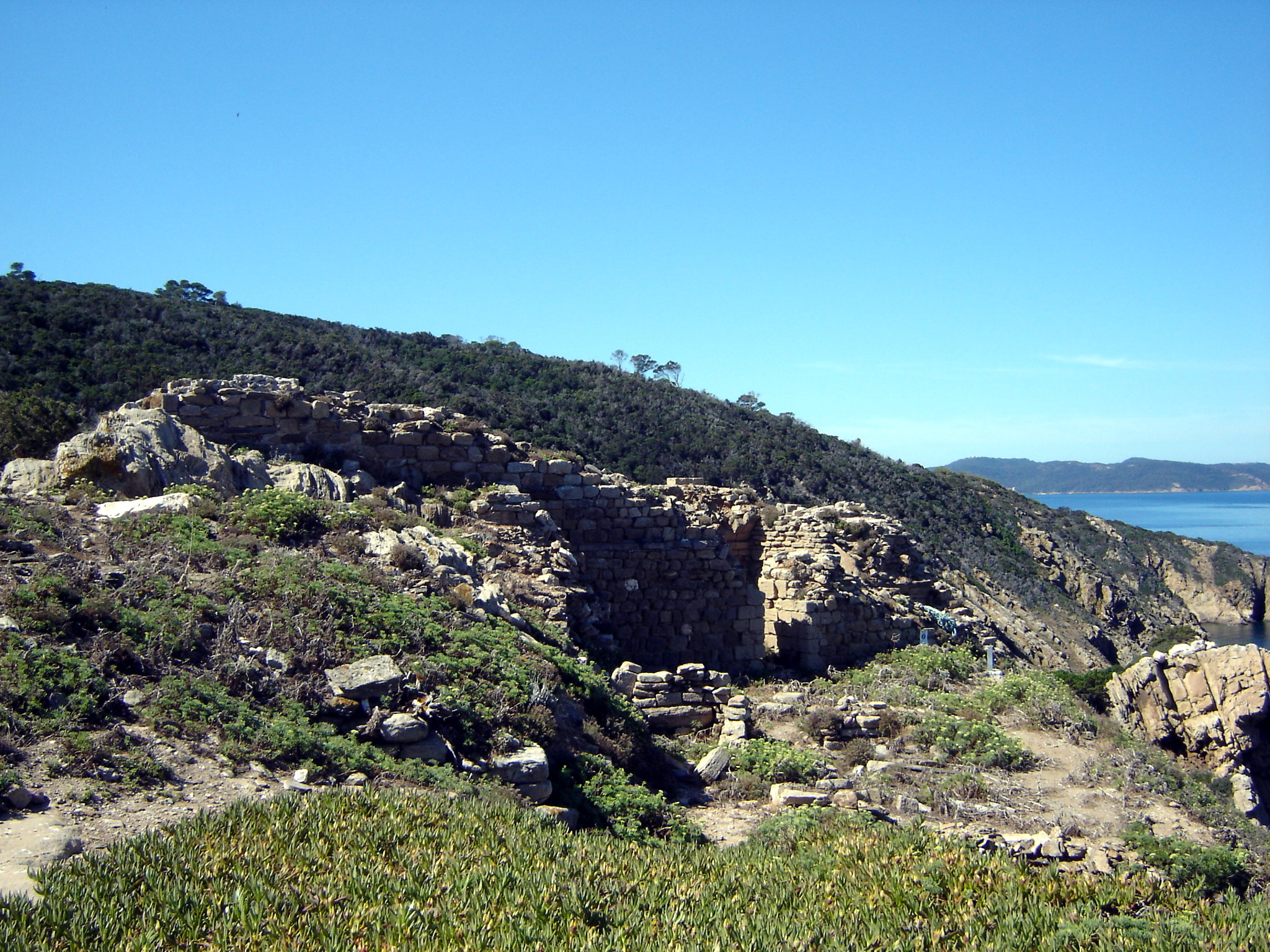 Ruins of Castelas.